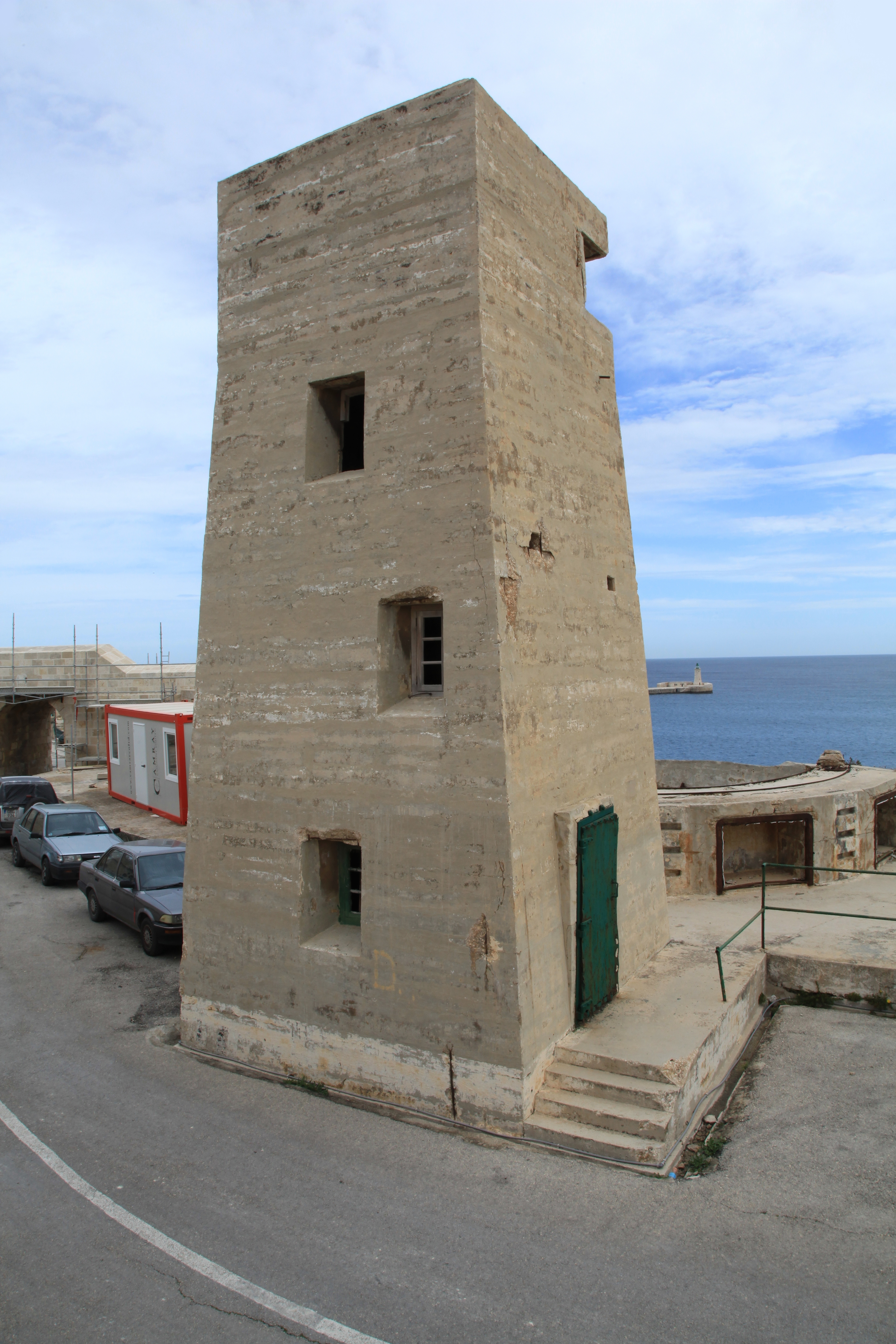 Fort Saint Elmo, Misraħ Sant' Iermu in Valletta, Malta